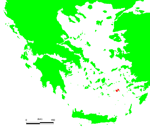 GR Astipalaia.PNG (Greek island)